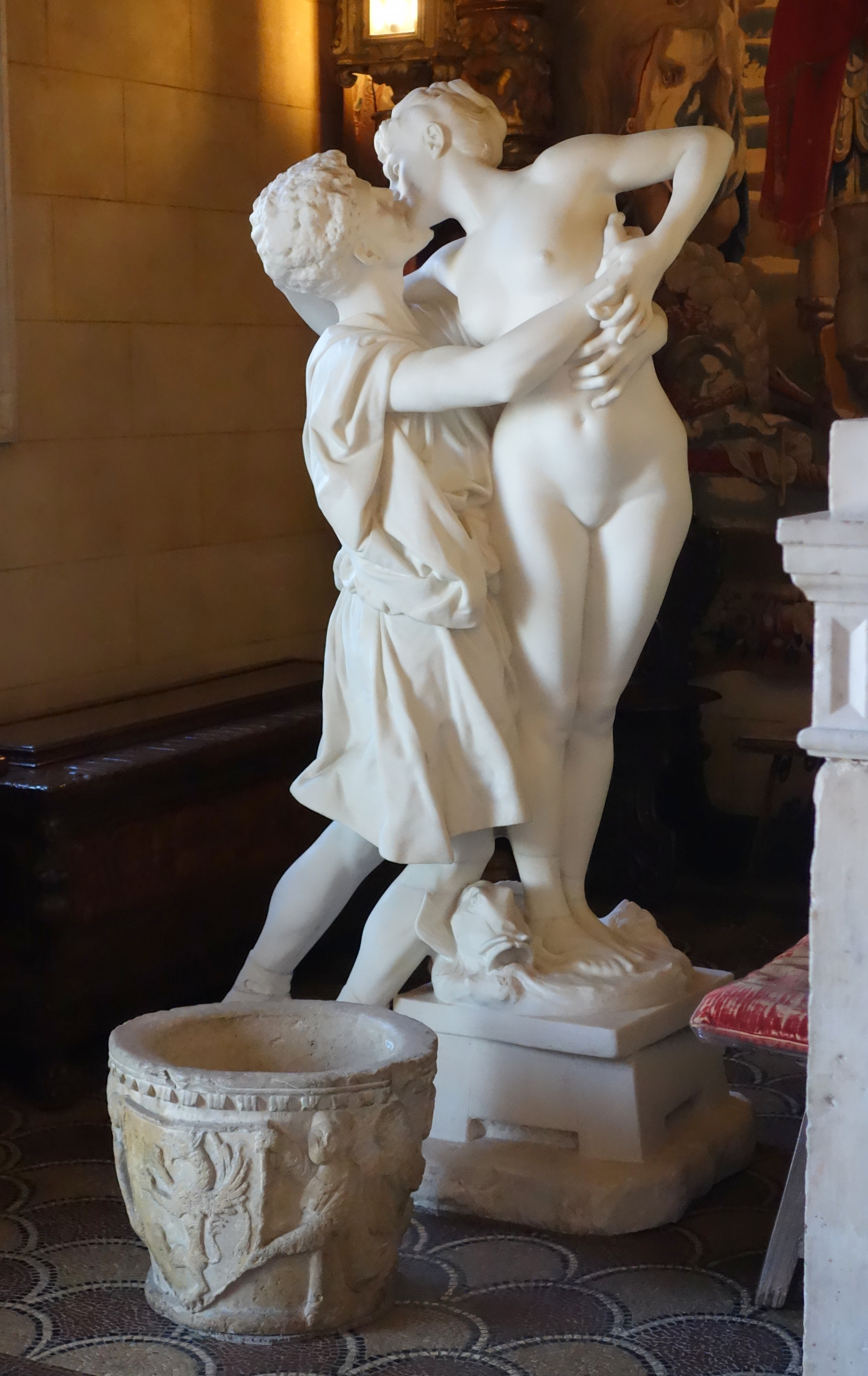 Artwork inside Hearst Castle, San Simeon, California, USA. Photograph was permitted without restriction in and around the castle. All artwork is old enough so that it is in the public domain.